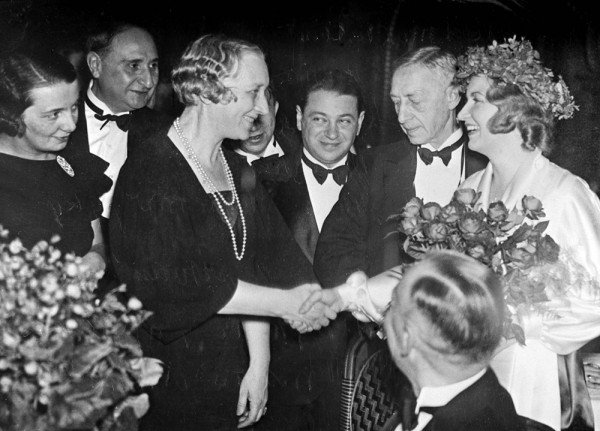 Left to right: G. N. Kuznetsova, I. Trotsky, V. N. Bunina, A. Sedykh, I. A. Bunin. Nobel Prize ceremony, Stockholm, 1933